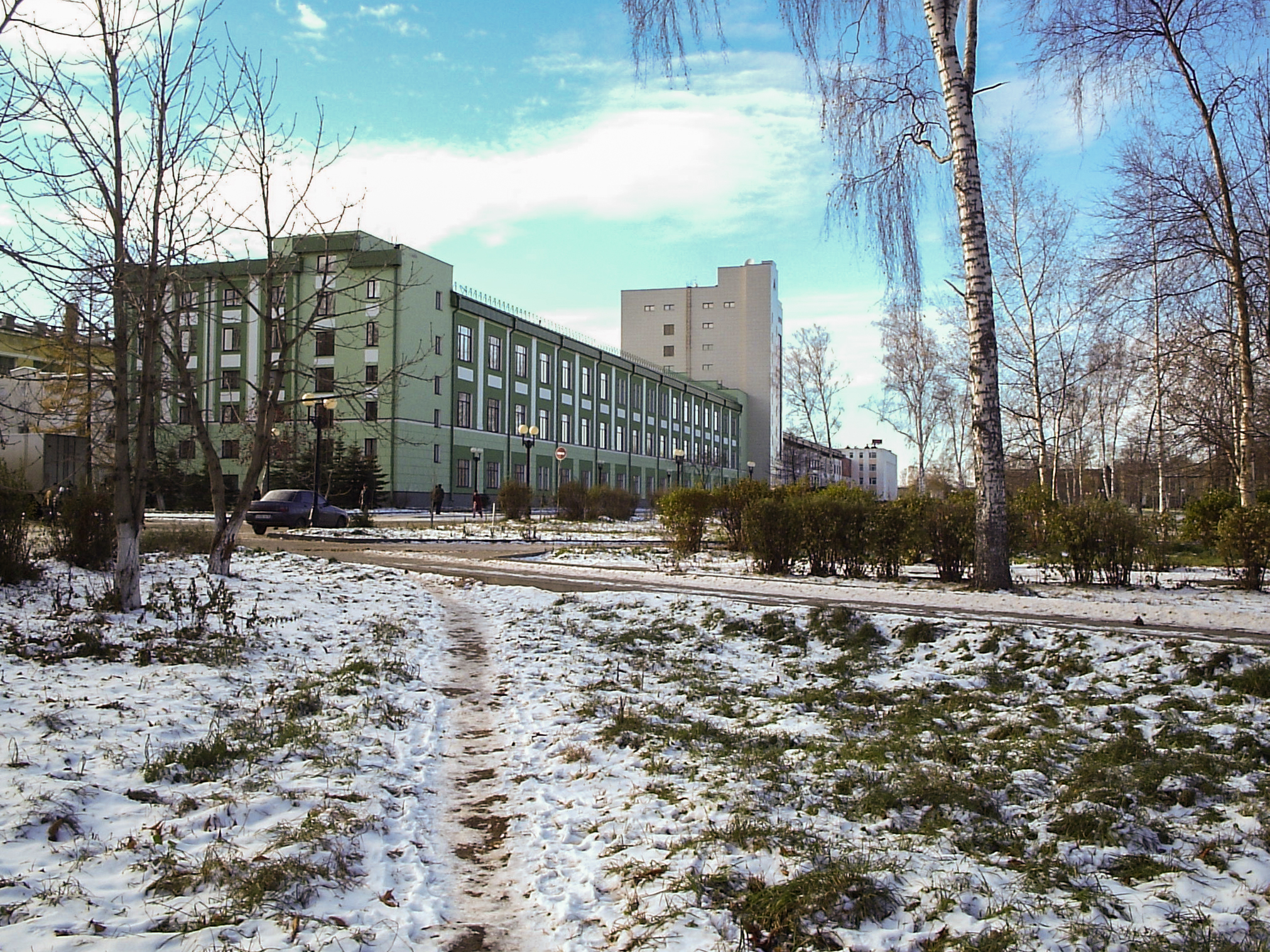 NPO-Saturn building in Rybinsk, Yaroslavl Oblast, Russia.